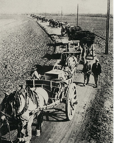 Moving train of a farmer, South of the Netherlands